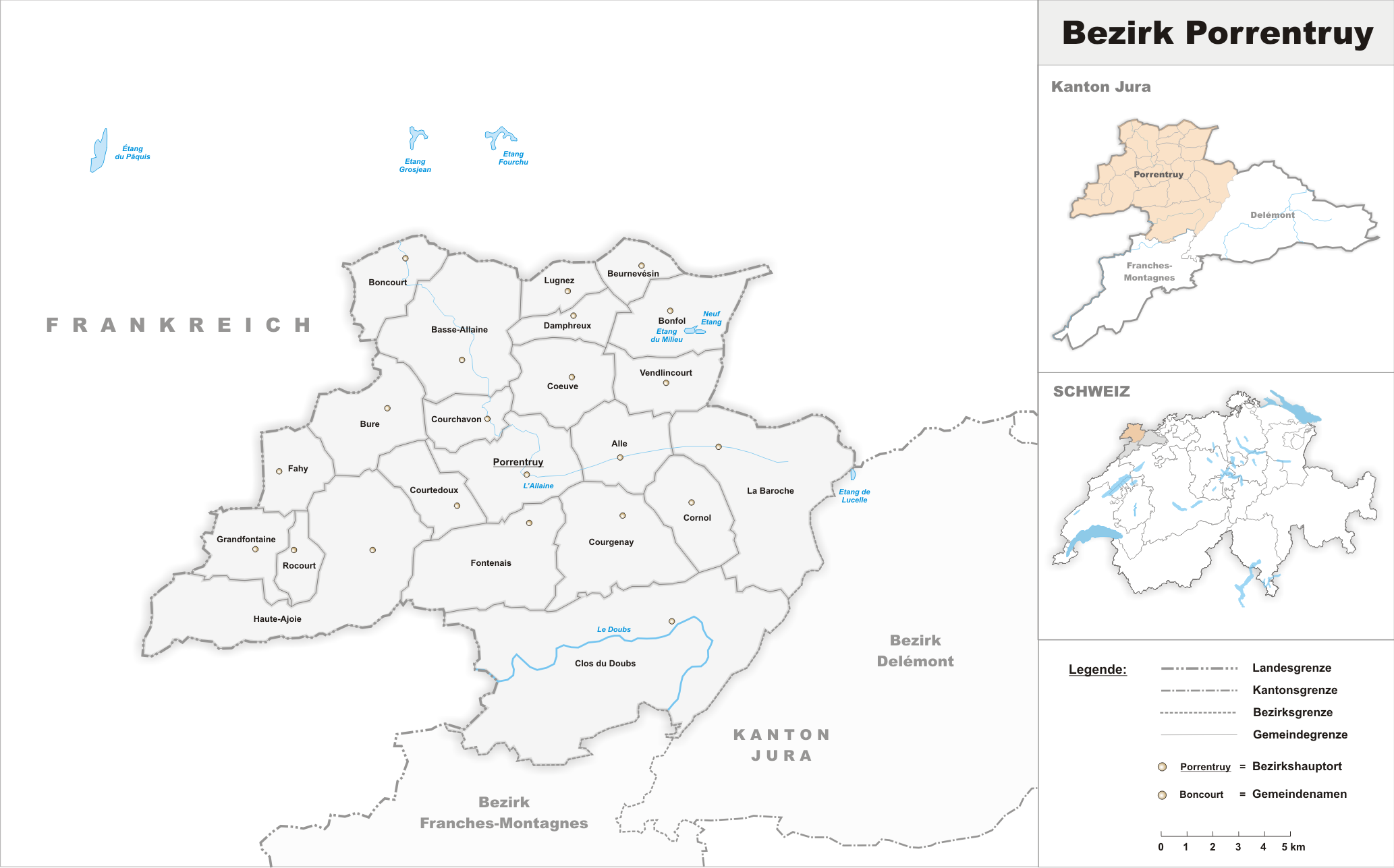 Municipalities in the district of Porrentruy